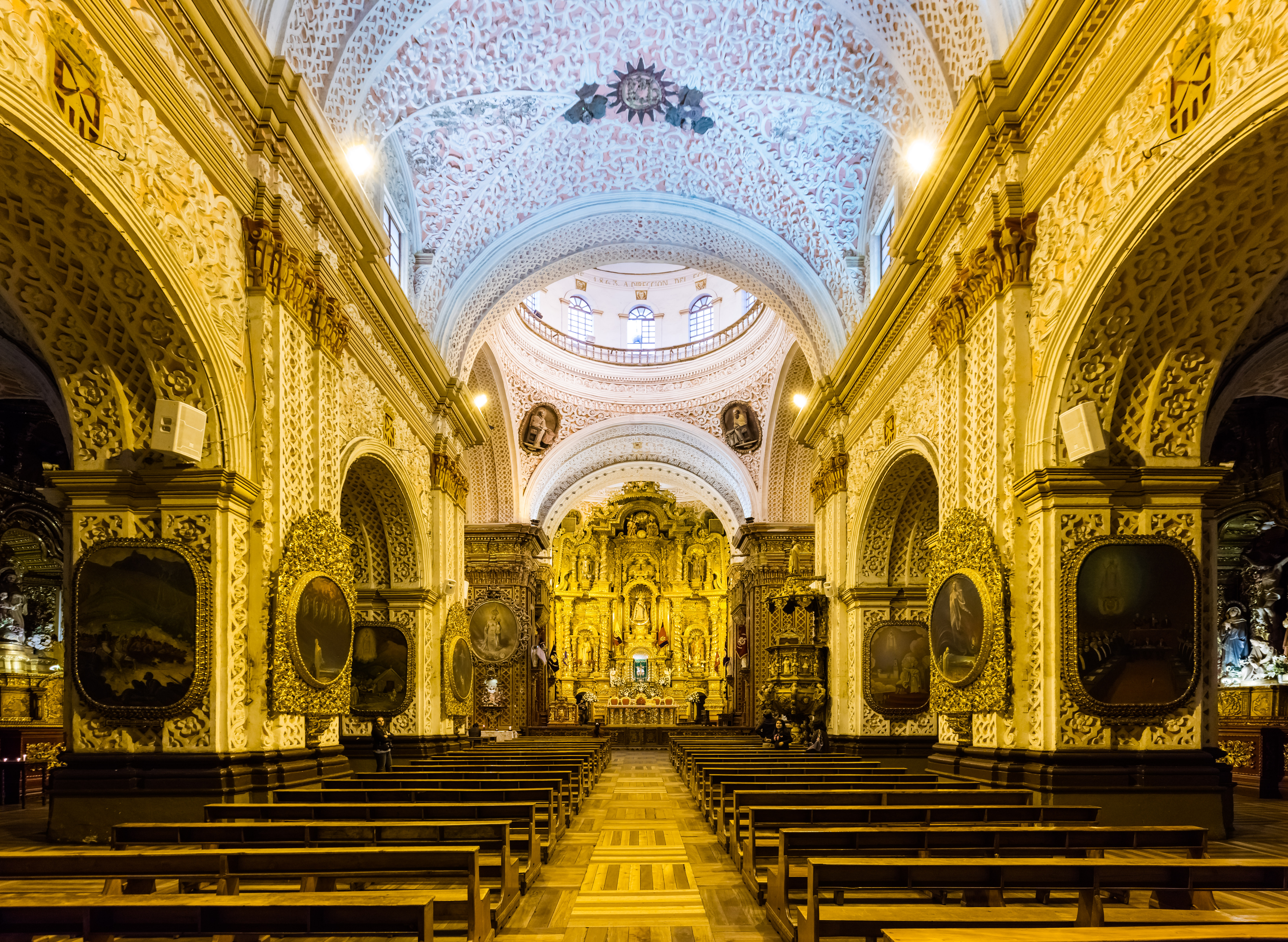 Church of the Mercy, Quito, Ecuador